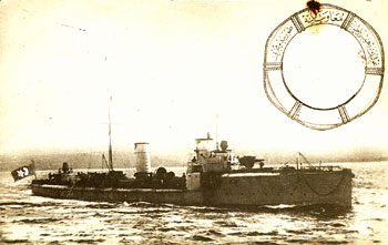 The Ottoman destroyer Muavenet-i Milliye.